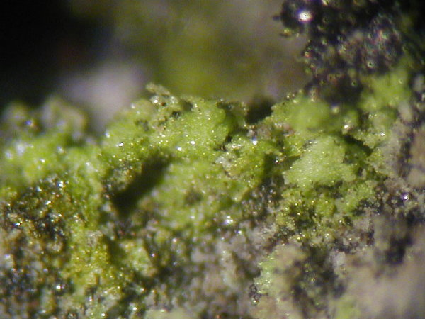 Periclase, Srebrodolskite (Picture size 1.5 mm) Fundort: Ronneburg, Thuringia, Germany Greenish nickeloan Periclase with black Srebrodolskite. Collection and foto Thomas Witzke.